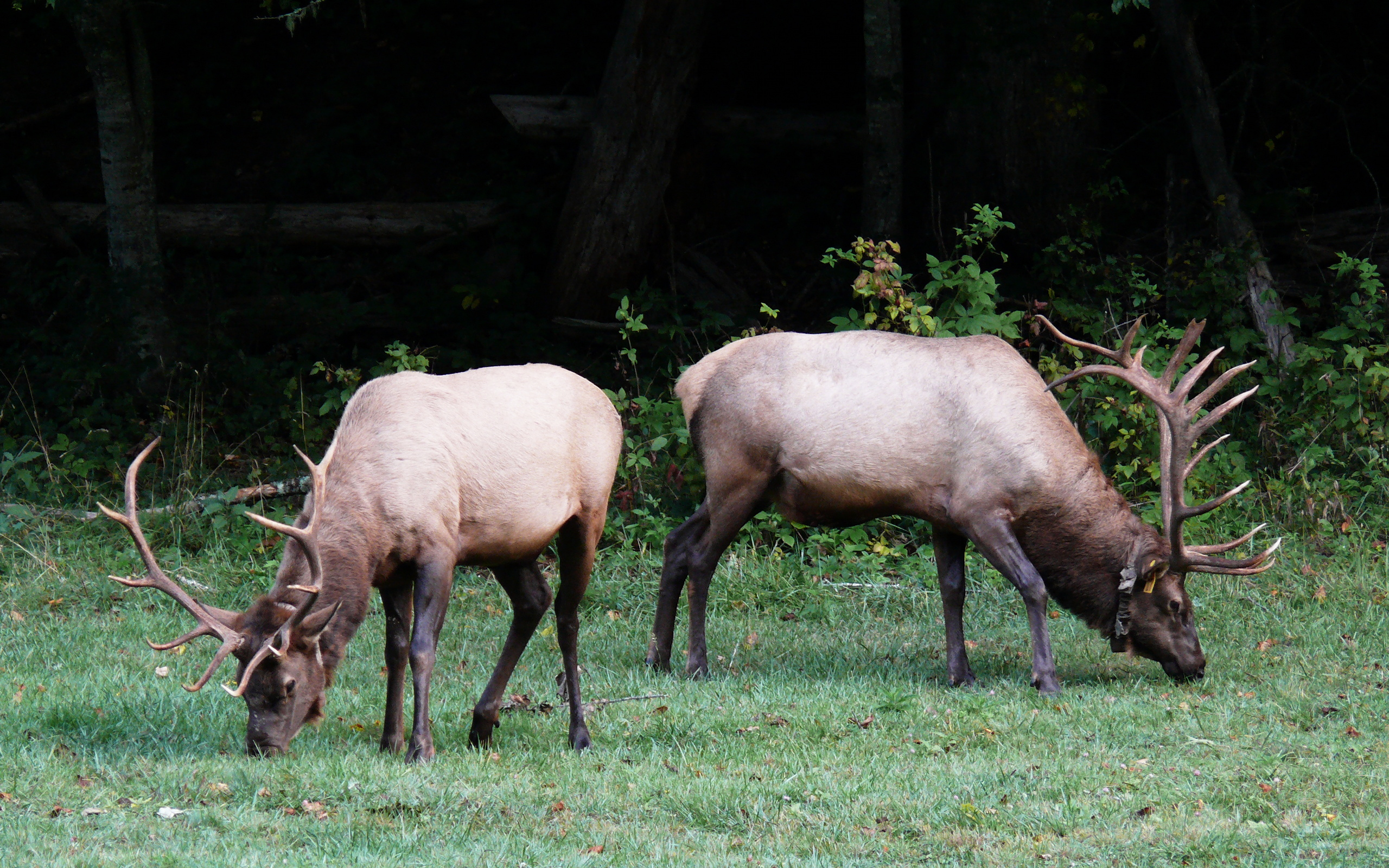 A pair of wild North American Elk (Cervus canadensis canadensis) bulls feeding along the edge of a field in the Cataloochee Valley of the Great Smoky Mountains National Park. These elk are part of a herd which was transplanted to Cataloochee in 2001, in an attempt to reintroduce the species to the Appalachians in North Carolina. Photo taken with a Panasonic Lumix DMC-FZ50 in Haywood County, NC, USA.